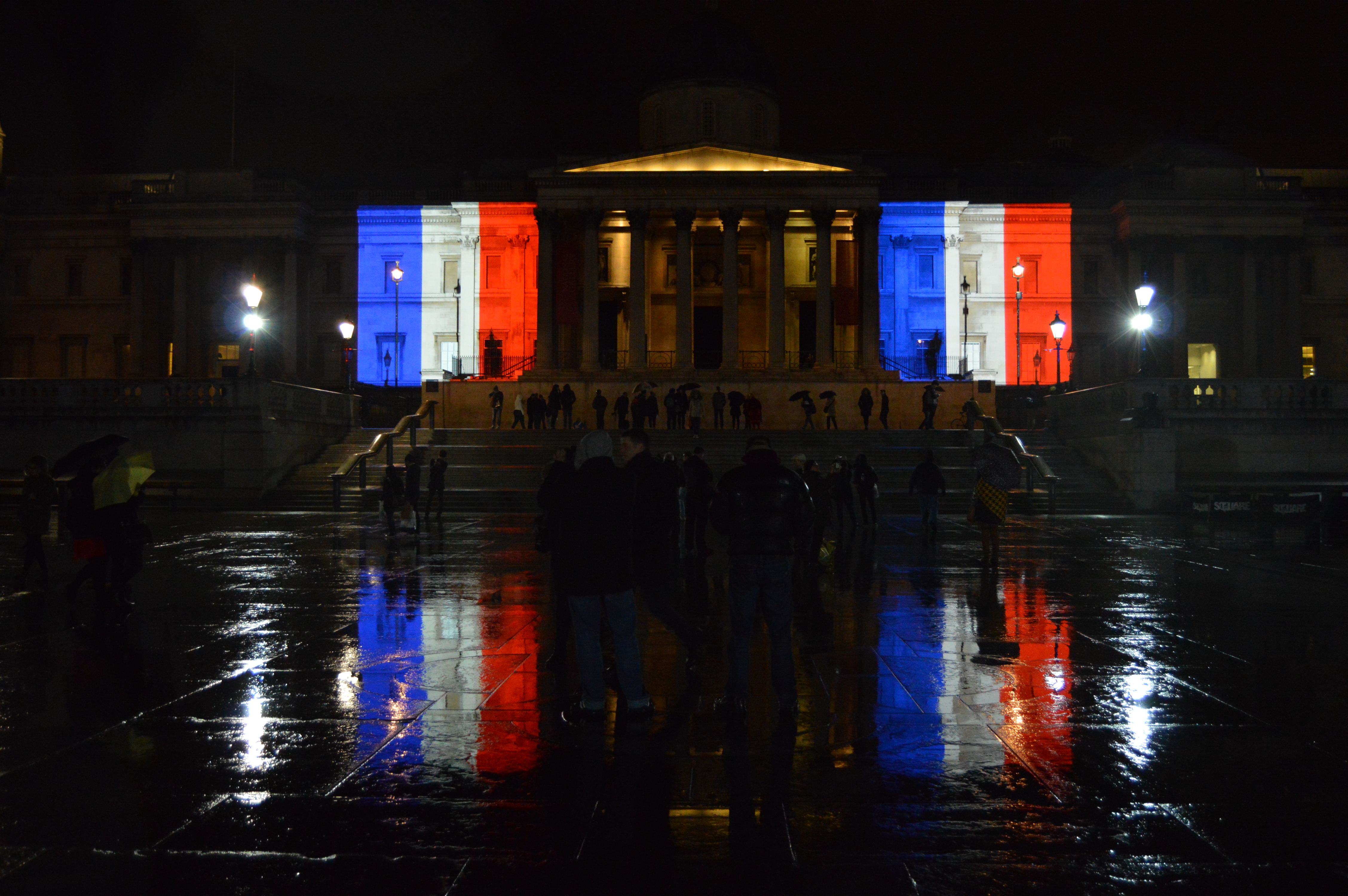 French flag projected onto The National Gallery, Trafalgar Square, London